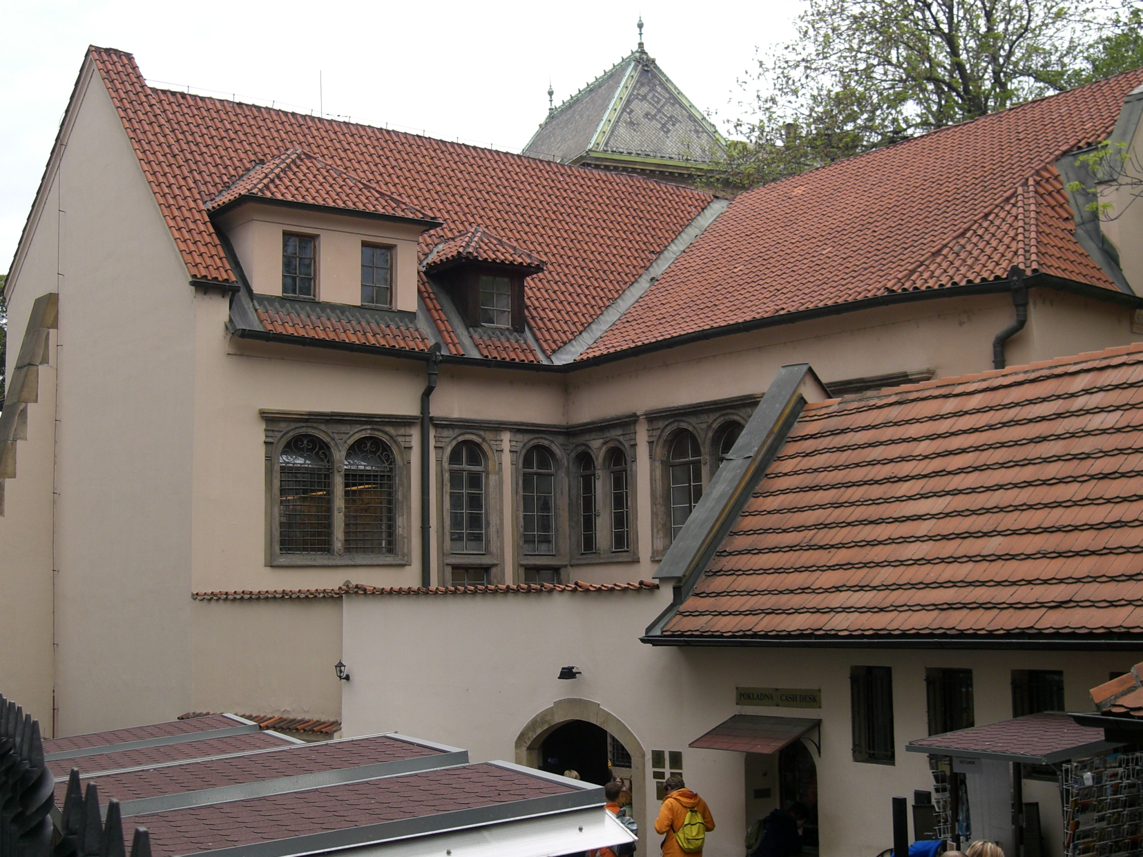 Pinkas synagogue in Prague, Czech Republic.